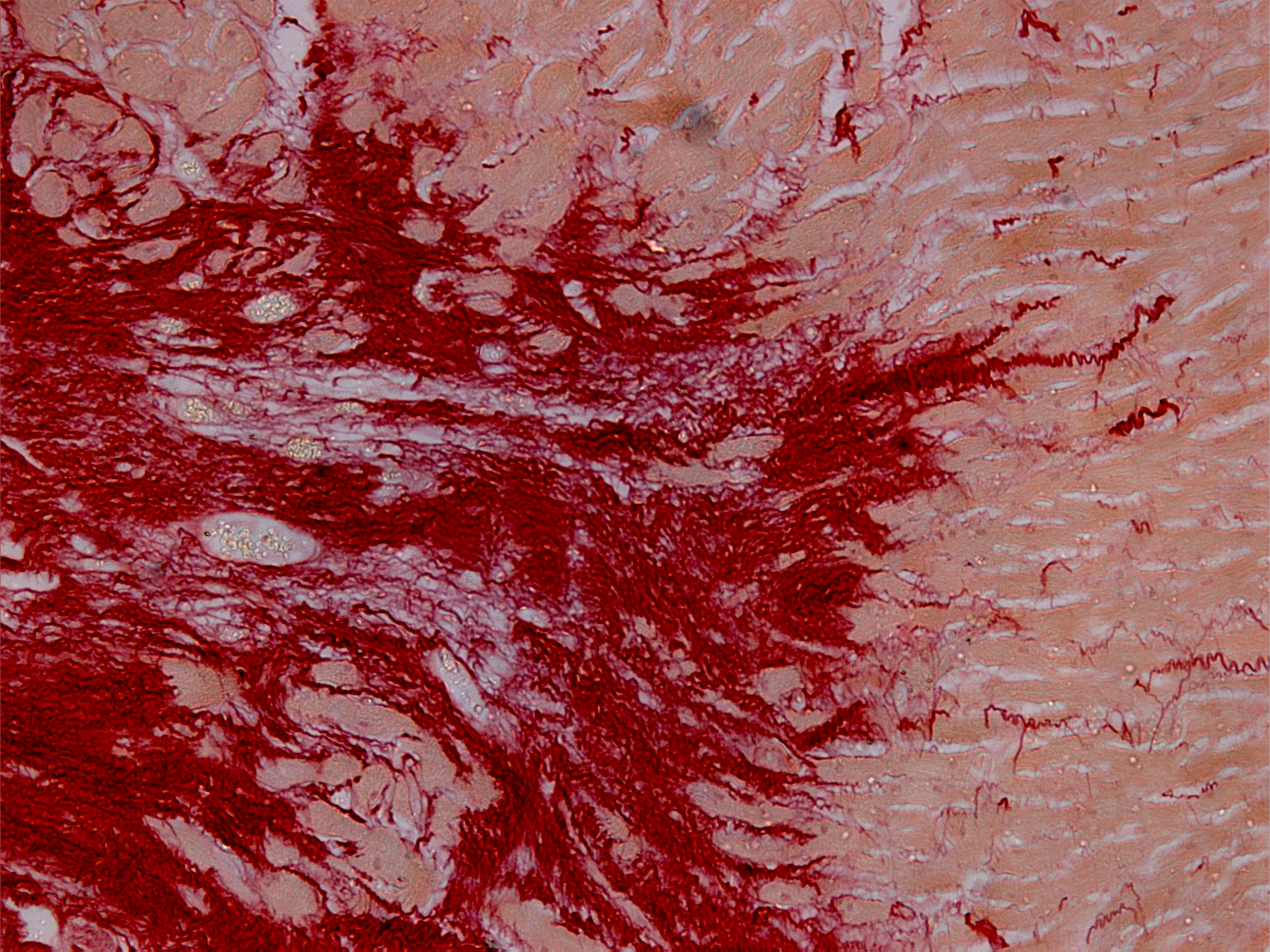 Myocardial infarction scar in the heart of a rat